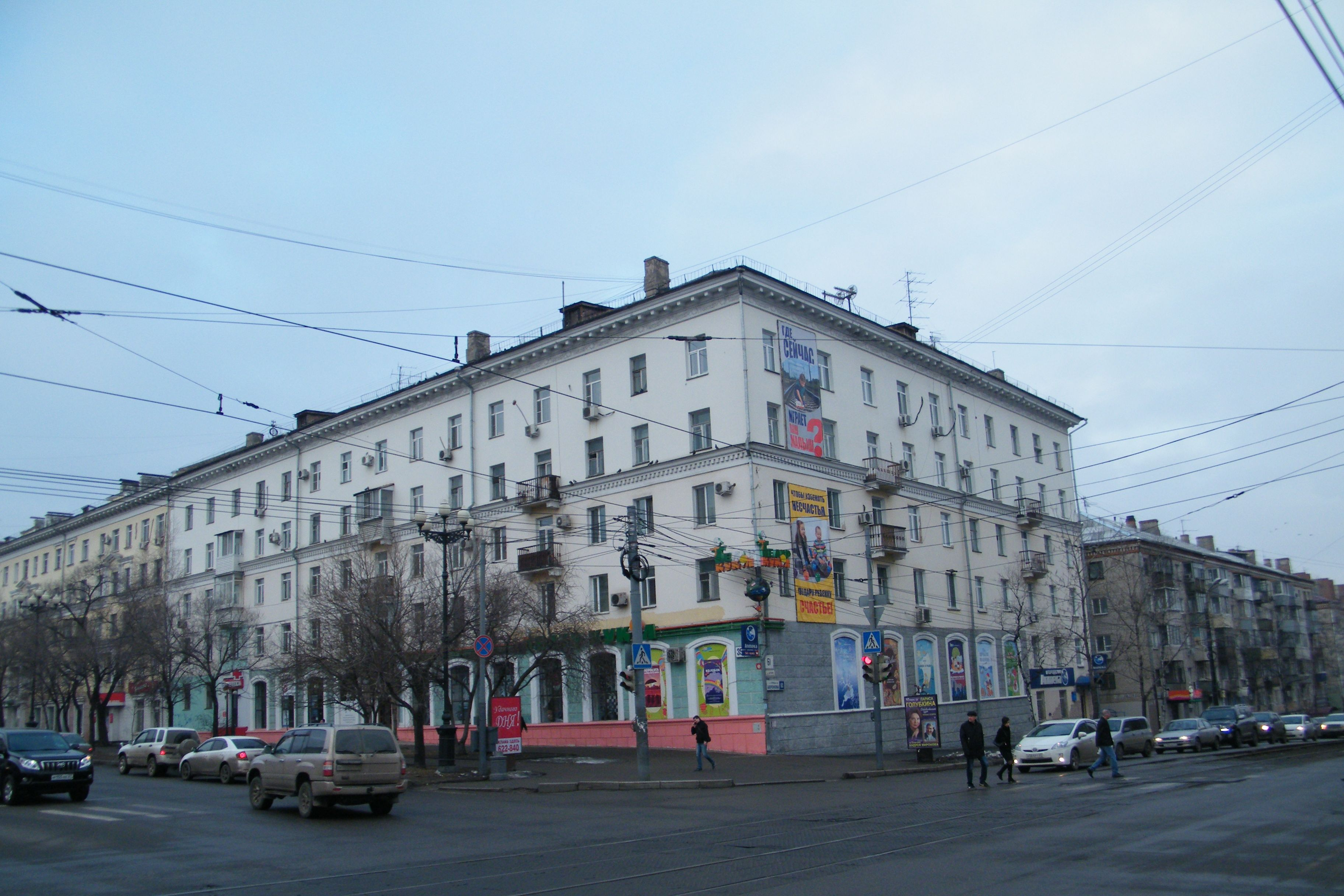 Theaters in Khabarovsk